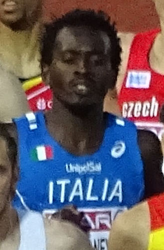 1500 metres final at the 2016 European Championships in Athletics in Amsterdam.